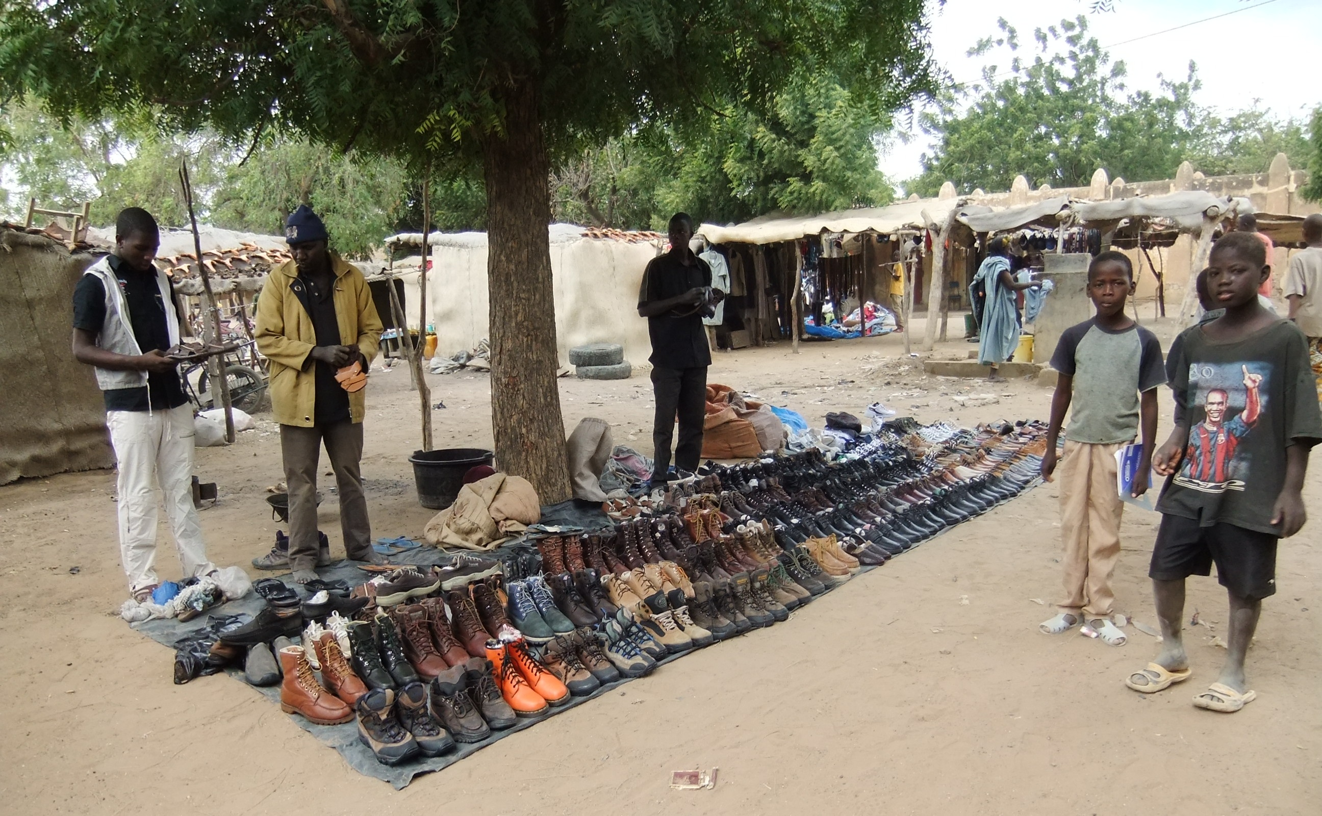 Nianfouke, Mali This is an image of "African people at work" from Mali